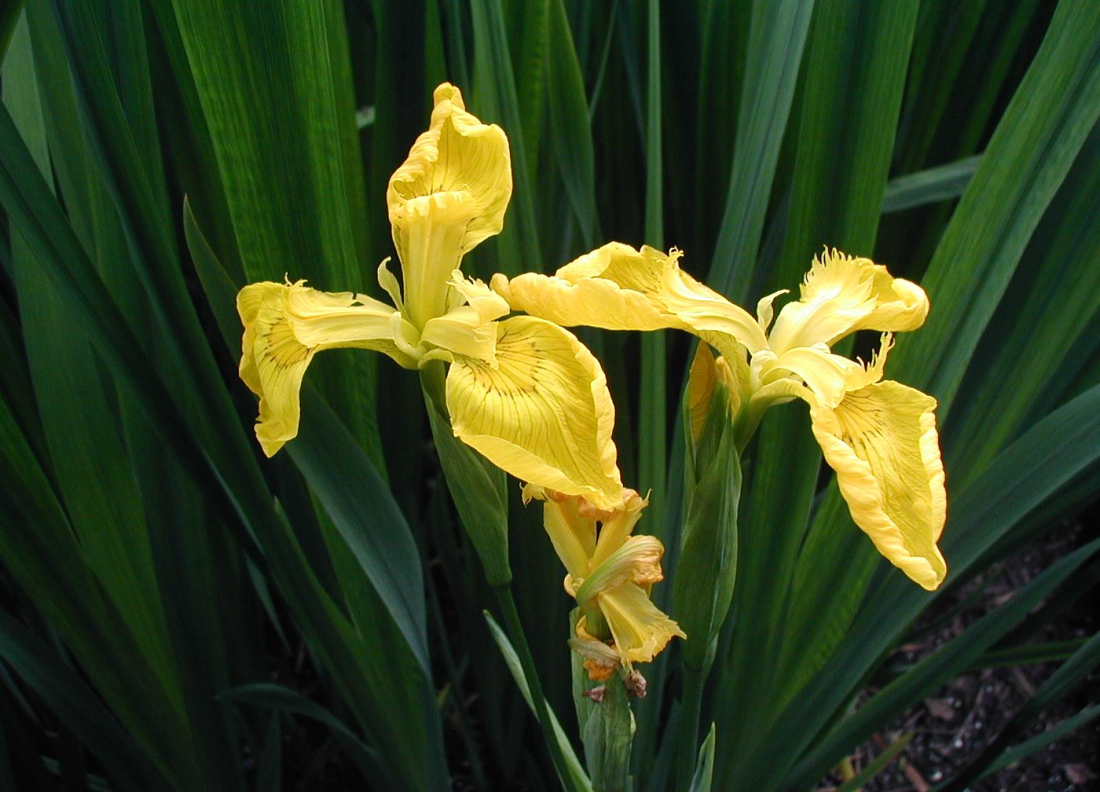 Iris pseudacorus: Flower.